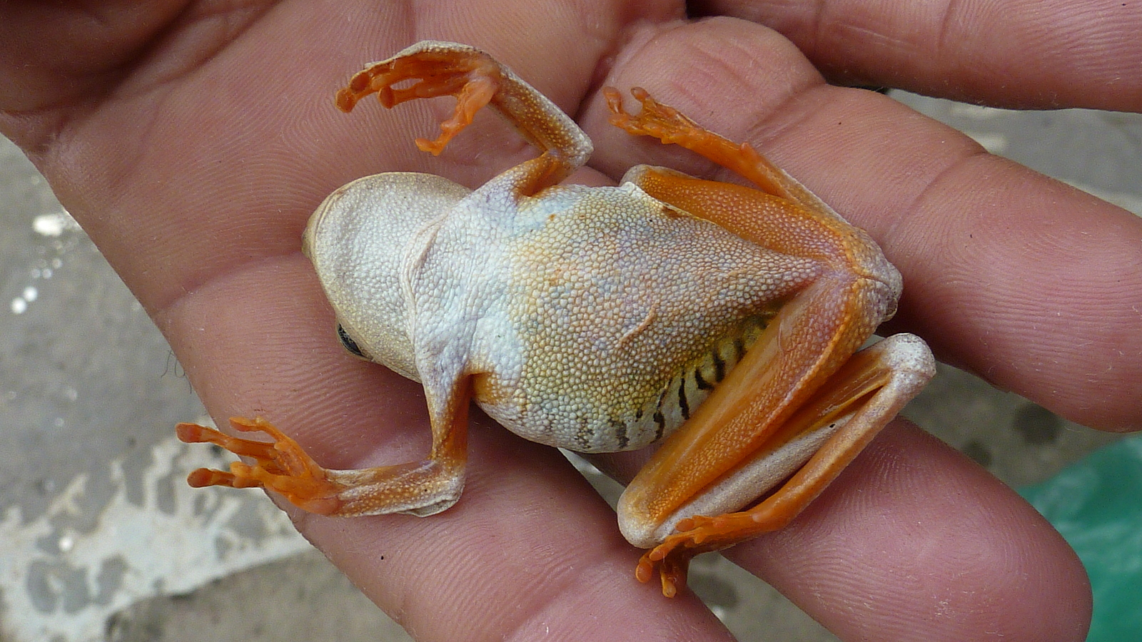 Playing dead.